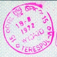 1972 passport stamp from Terespol, Poland. Stamp was entered into a pass for Polish citiziens during communist times, valid for eastern block countries only.